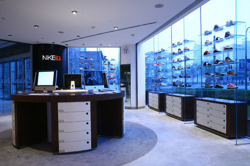 Photograph of the NikeiD Studio at it's launch in Shanghai.南京东路819号百联世茂国际广场B1-1楼（近西藏中路）NIKEiD Studio在耐克上海旗舰店开幕